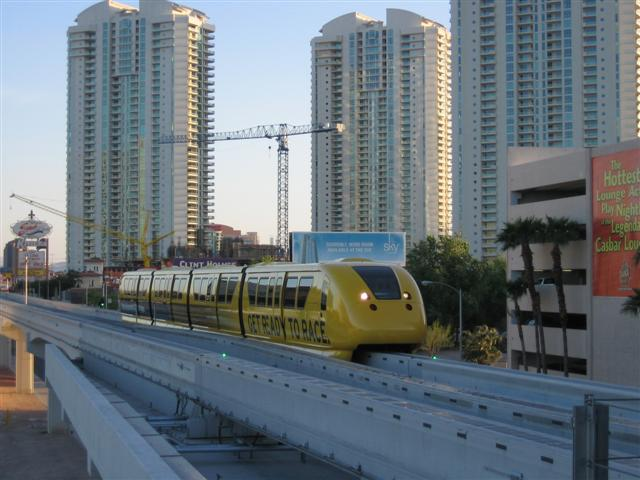 A Las Vegas Monorail train pulling into the Sahara Station. This image is released to the public domain.